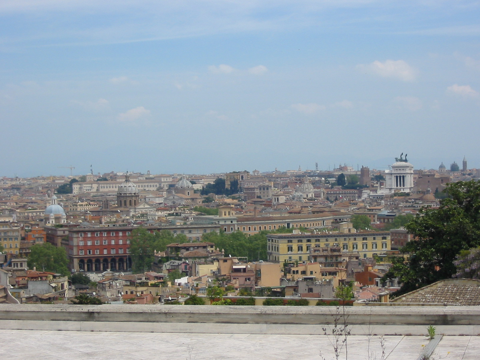 Rome, panorama, picture taken by user:donarreiskoffer